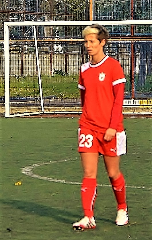 Esra Erol at away match against Marmara Üniversitesi Spor on Jan 12, 2014